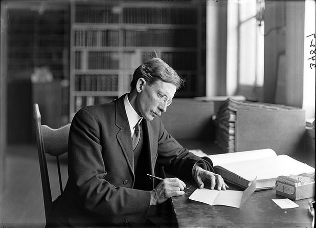 Jesse More Greenman, botanist and curator at Missouri Botanical Garden